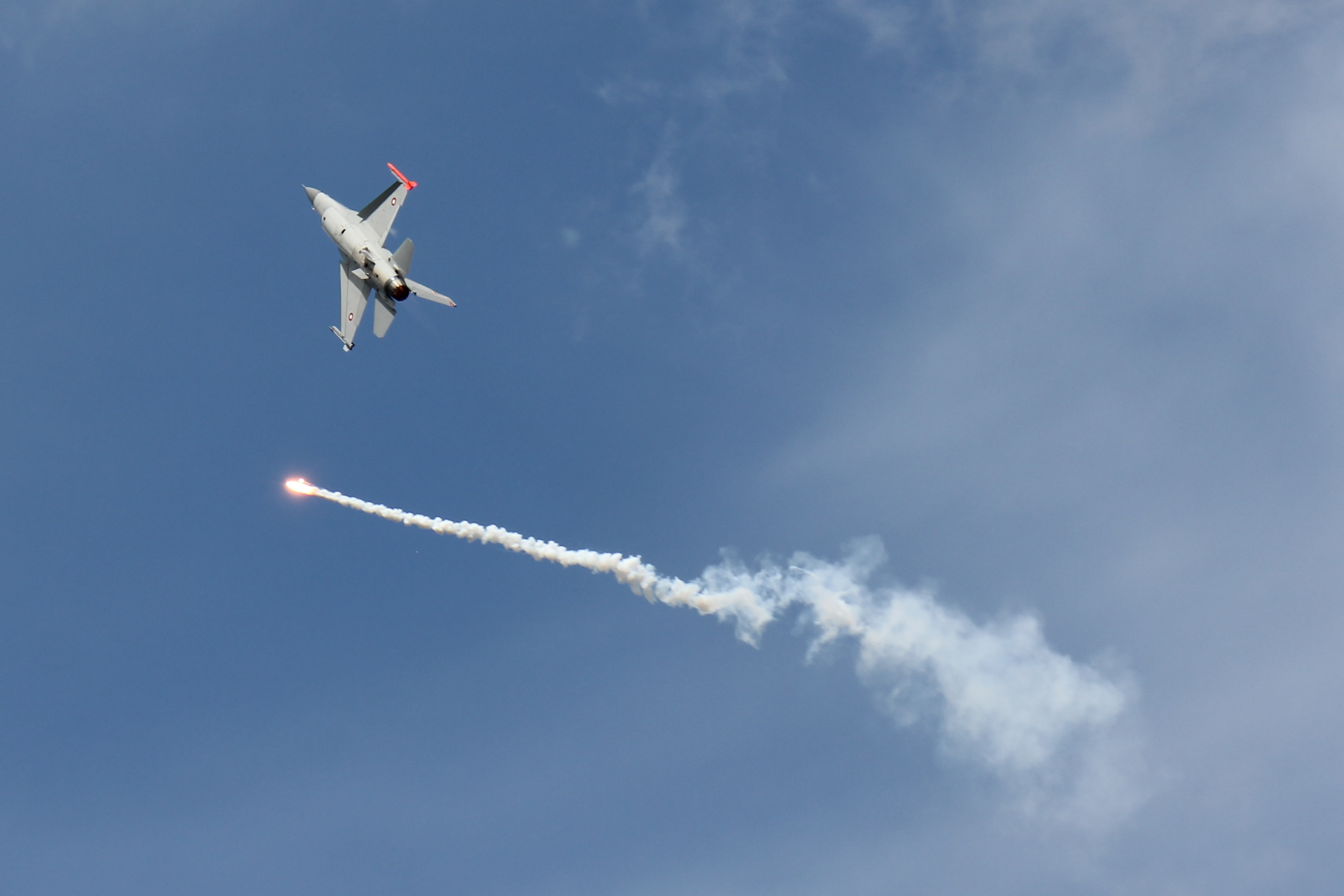 RDAF F-16 Fighting Falcon, during an demonstration on Karup AF Base, Denmark - June 2011